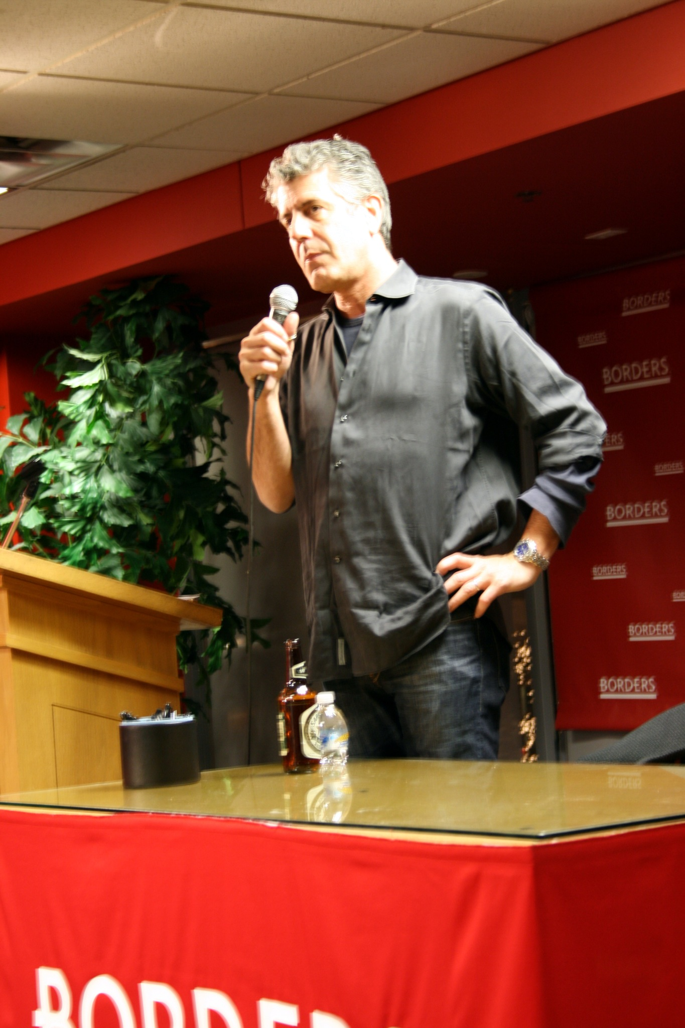 Tony Bourdain